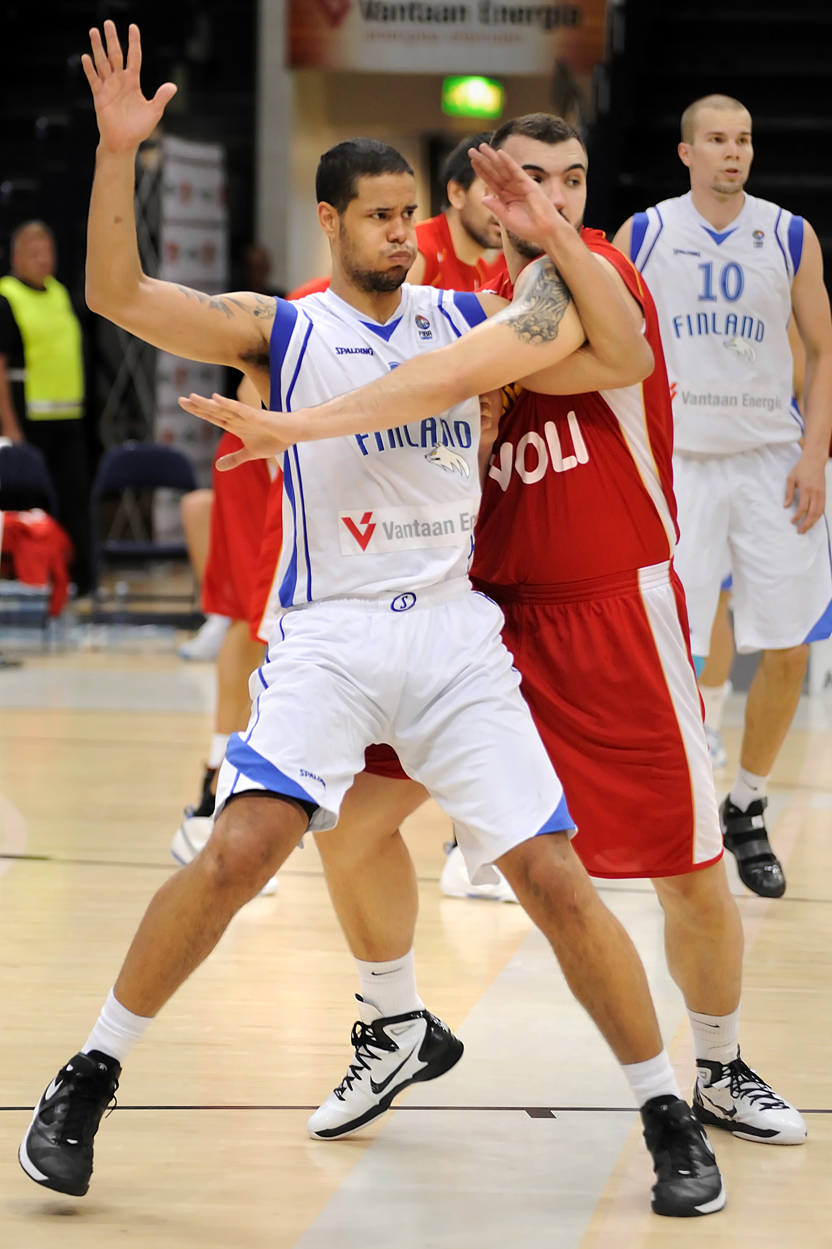 Basketball player Gerald Lee Jr. playing for Finland against Montenegro at Energia Areena in Vantaa, Finland. Montenegro won the game.